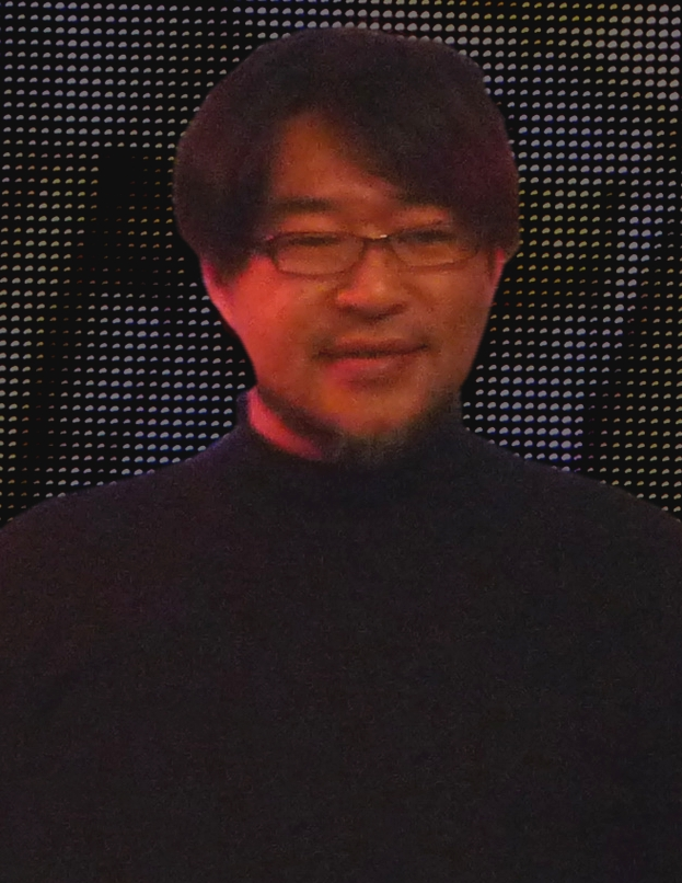 This photo was taken on March 9, 2010 using a Panasonic DMC-TZ5.